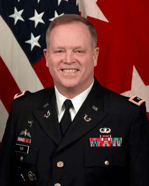 Clyde J. Tate, II, DJAG